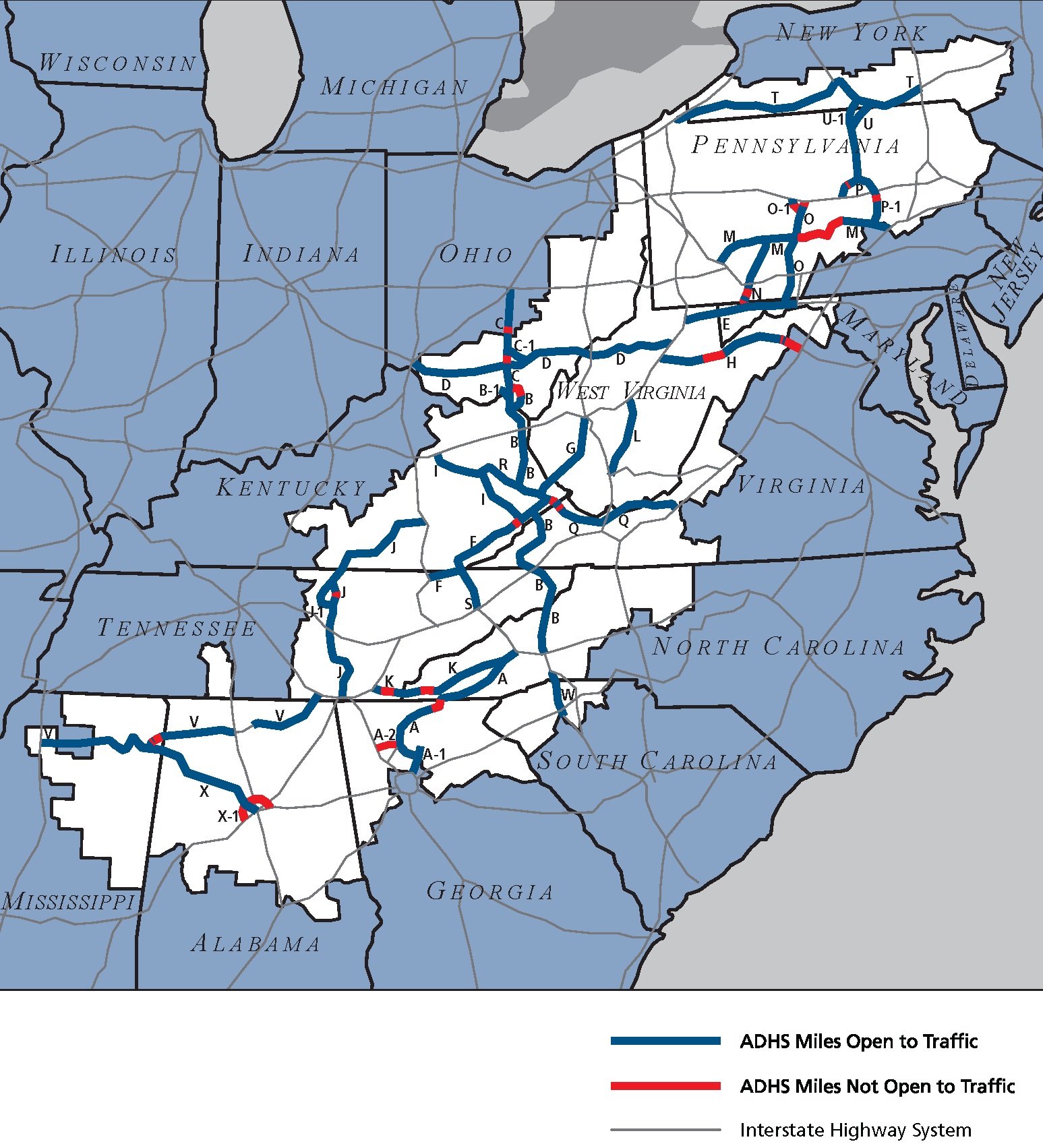 Map of the Appalachian Development Highway System as of February 25, 2018. As the original map is labeled "Source: Appalachian Regional Commission", and the ARC is an agency of the U.S. Federal Government, this is public domain.